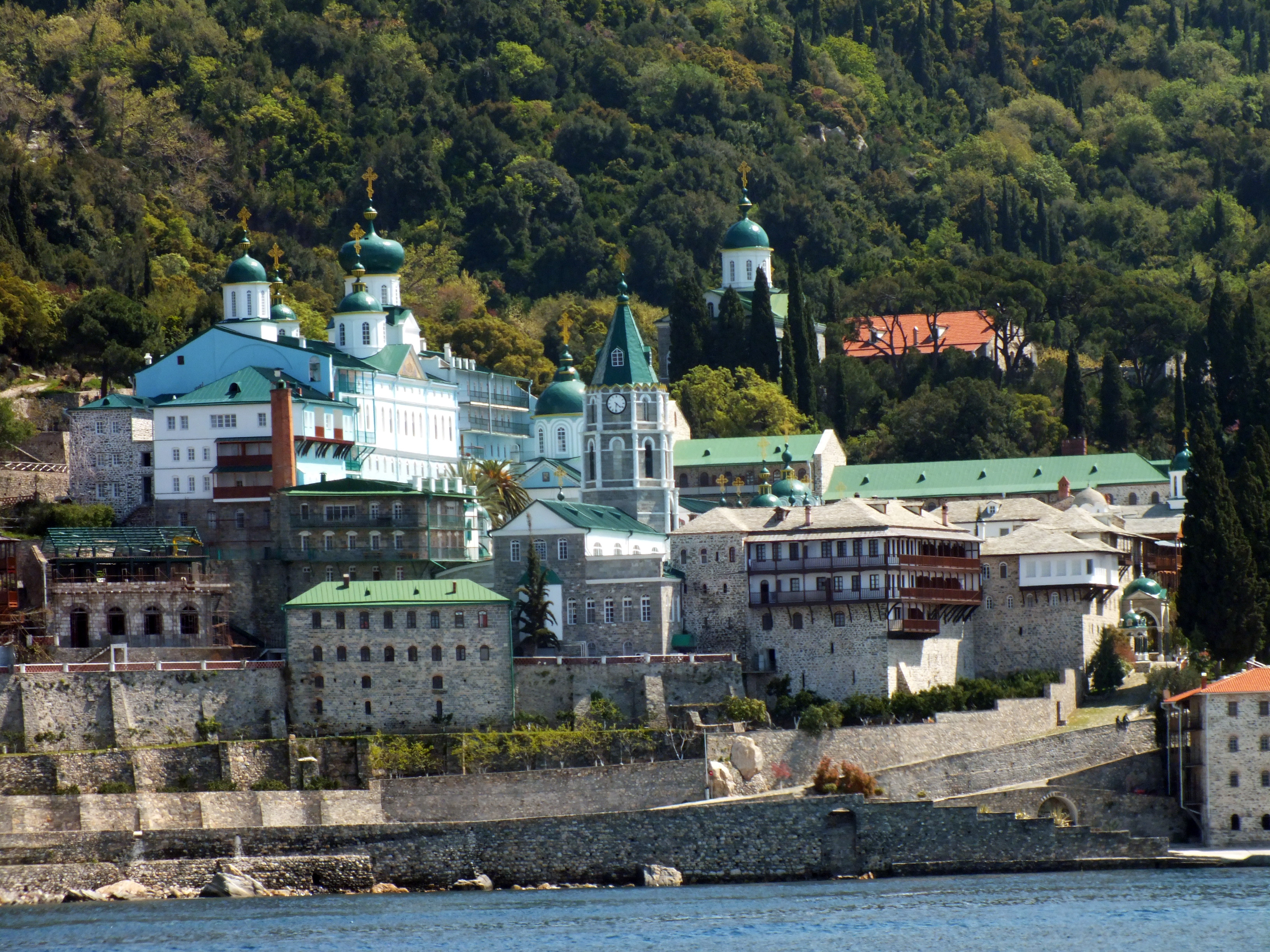 Agiou Panteleimonos monastery, Mount Athos, Greece